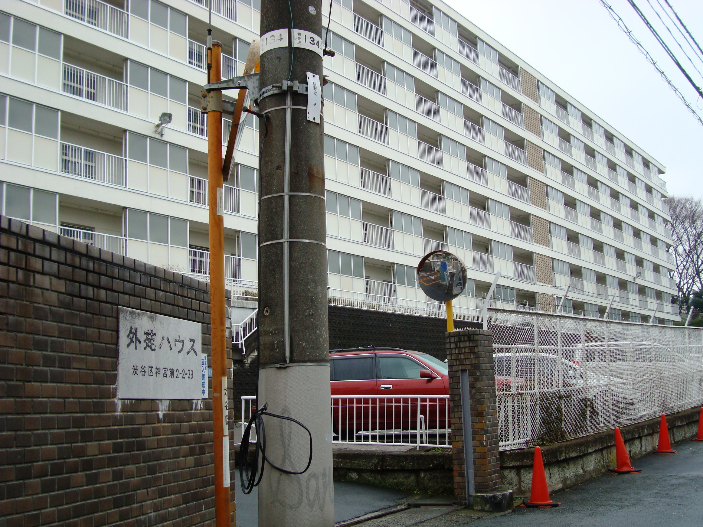 The Gaien House apartment, Harajuku, Tokyo